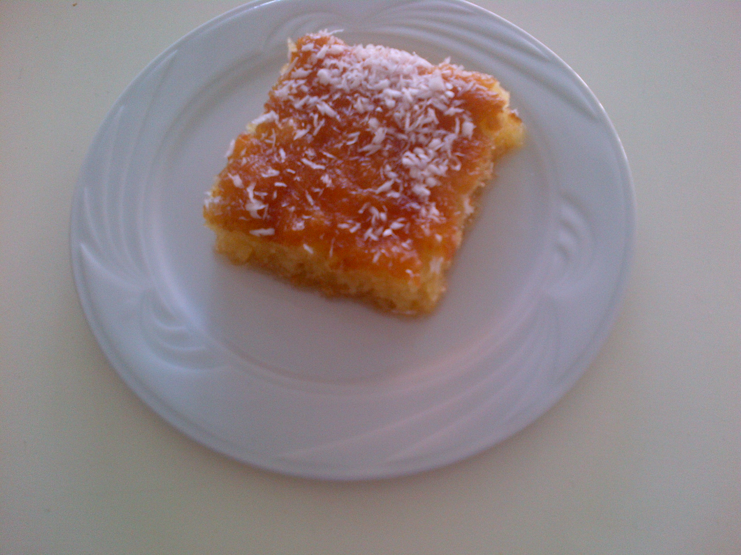 Revani, a dessert from the Turkish cuisine.